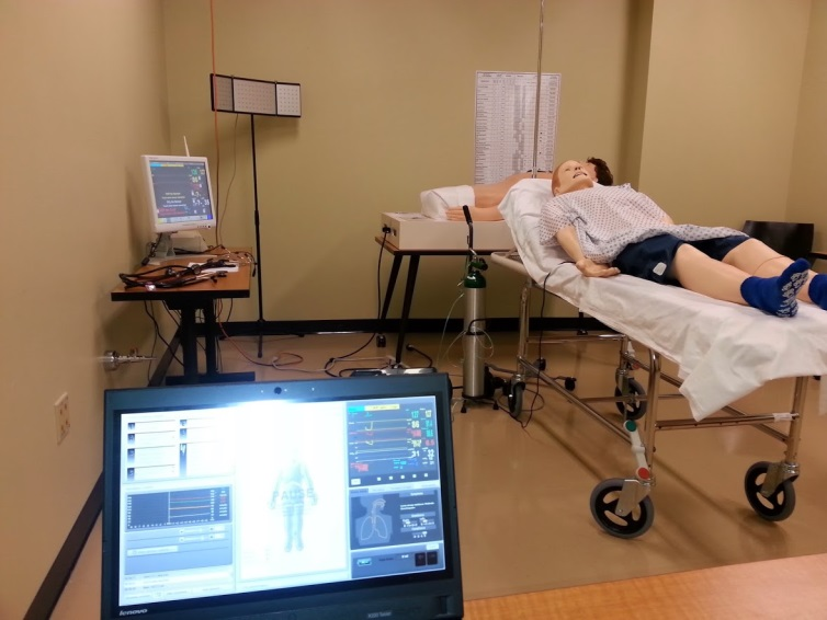 Simulation Session